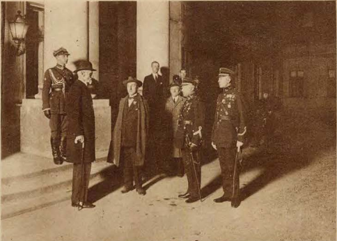 Emil Rauer nad E. Czyniowski report to President Wojciechowski, 10th anniversary of Police and Civil Guard, 1925